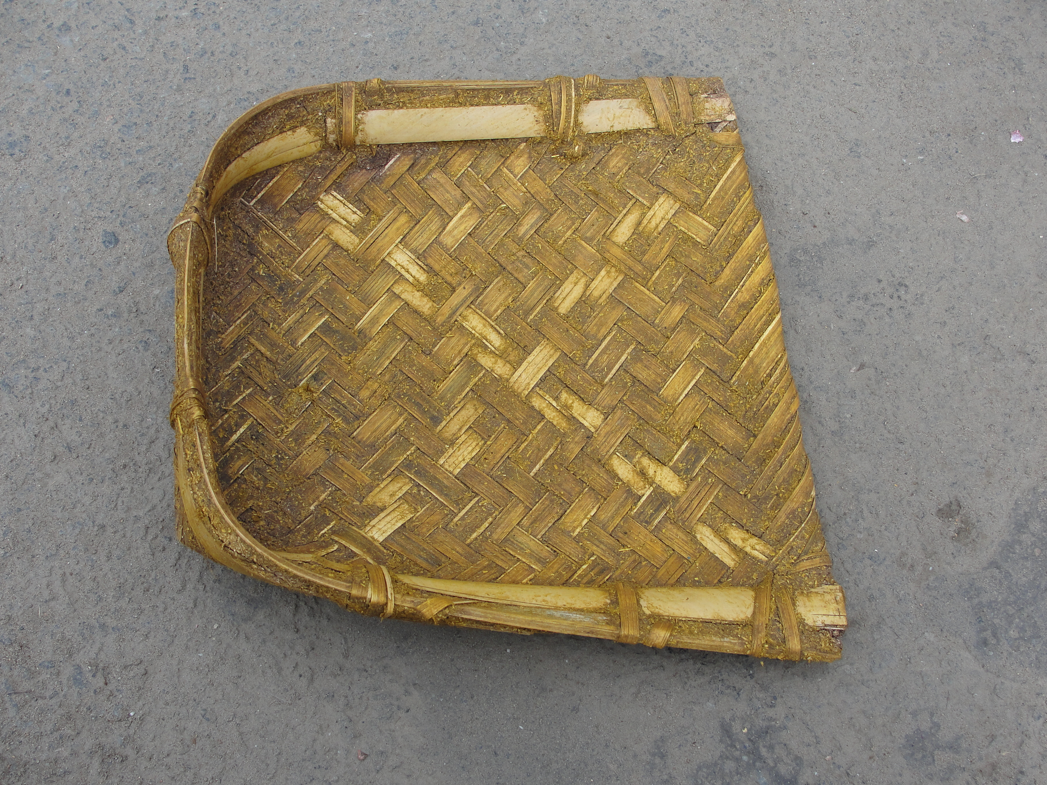 A traditional Winnowing tool used by Tamils.